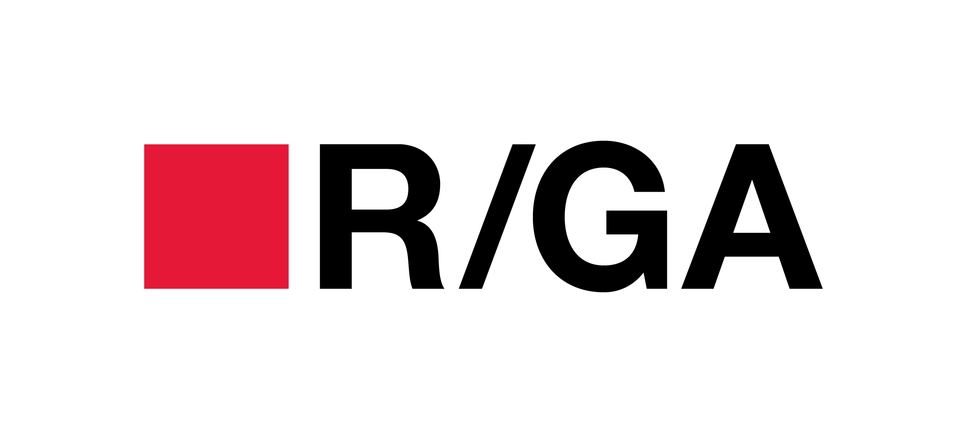 R/GA logo